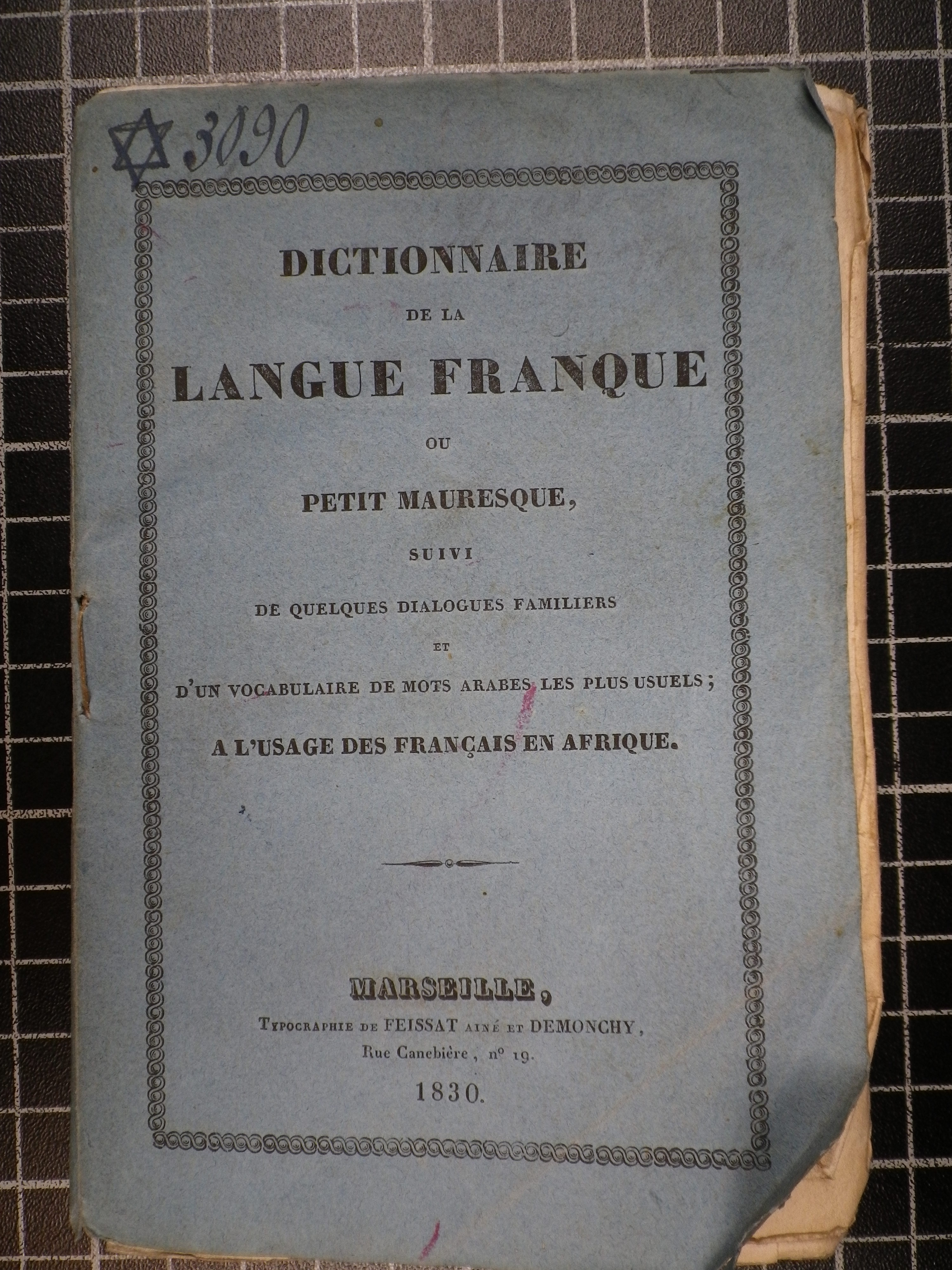 Front Page of 1830's Lingua Franca dictionary, printed in Marseille.